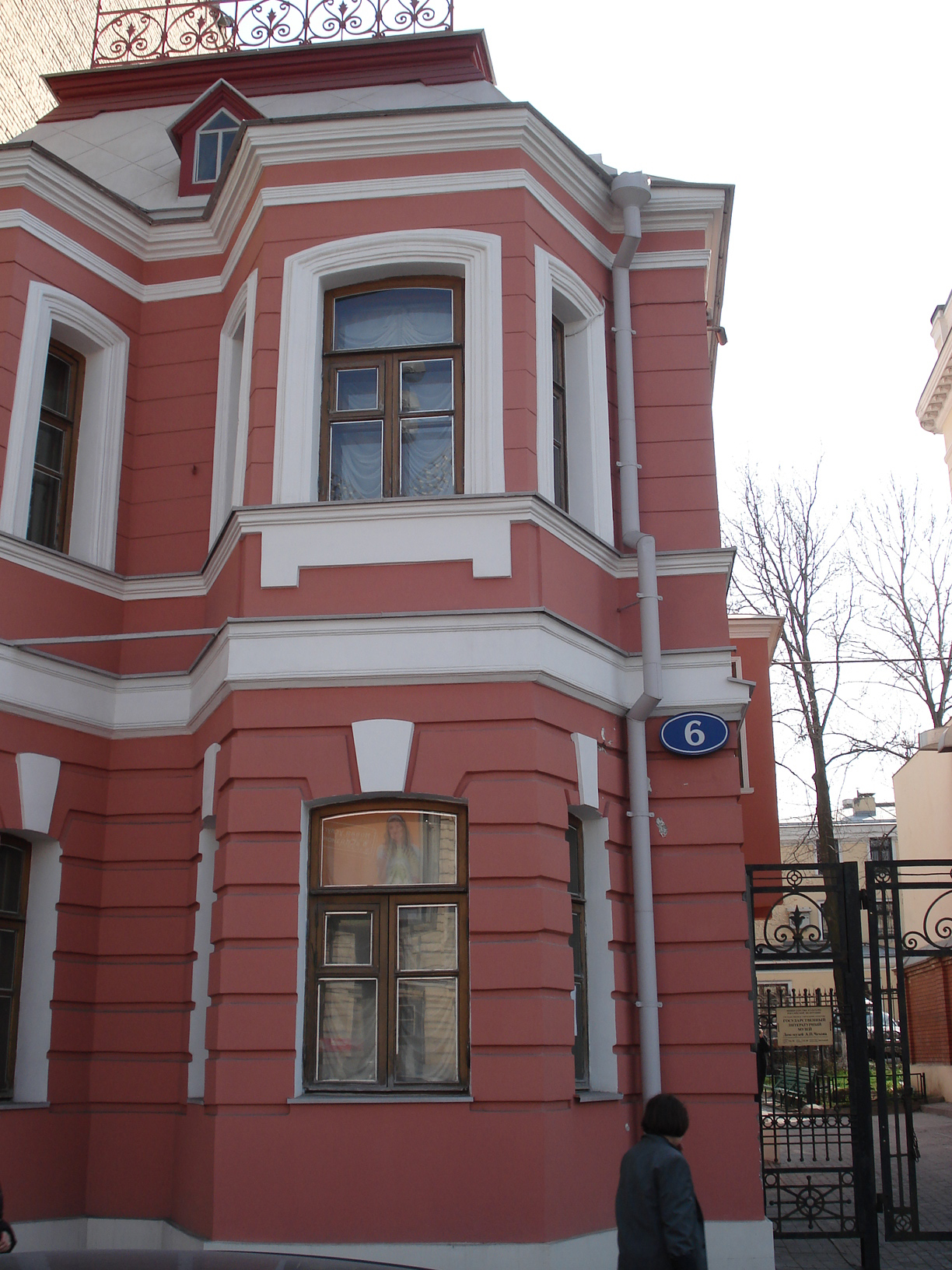 Anton Chekhov house in Moscow (1886-1890), Sadovaya-Kudrinskaya street 6